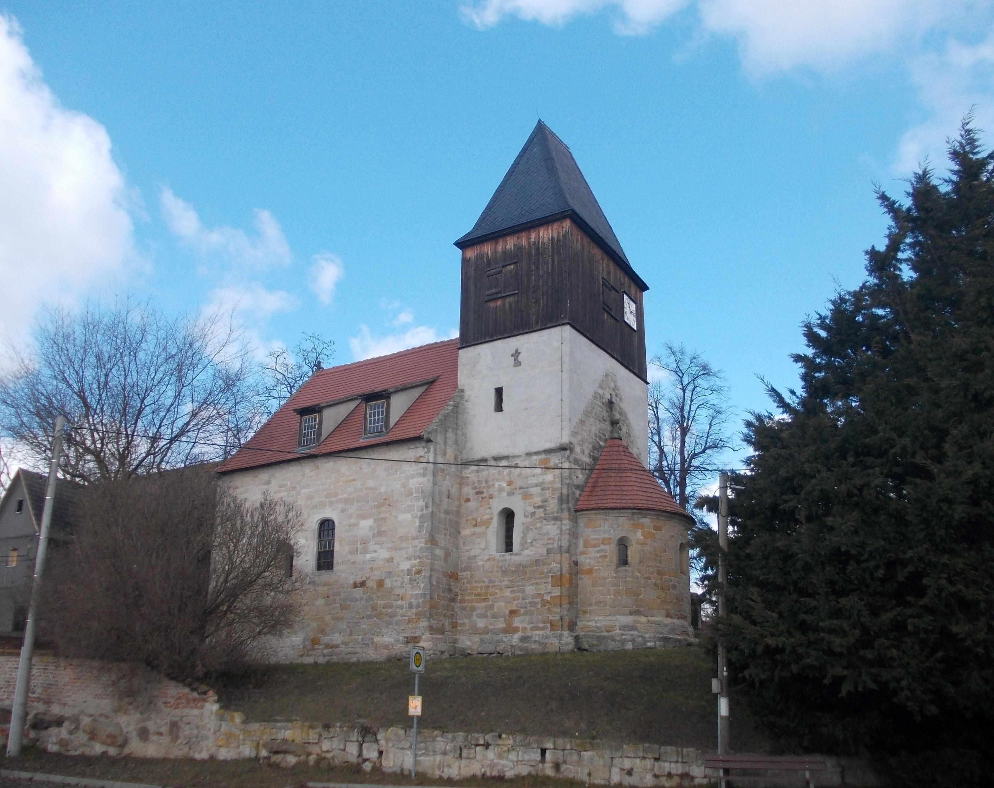 Keutschen church (Hohenmölsen, district: Burgenlandkreis, Saxony-Anhalt)